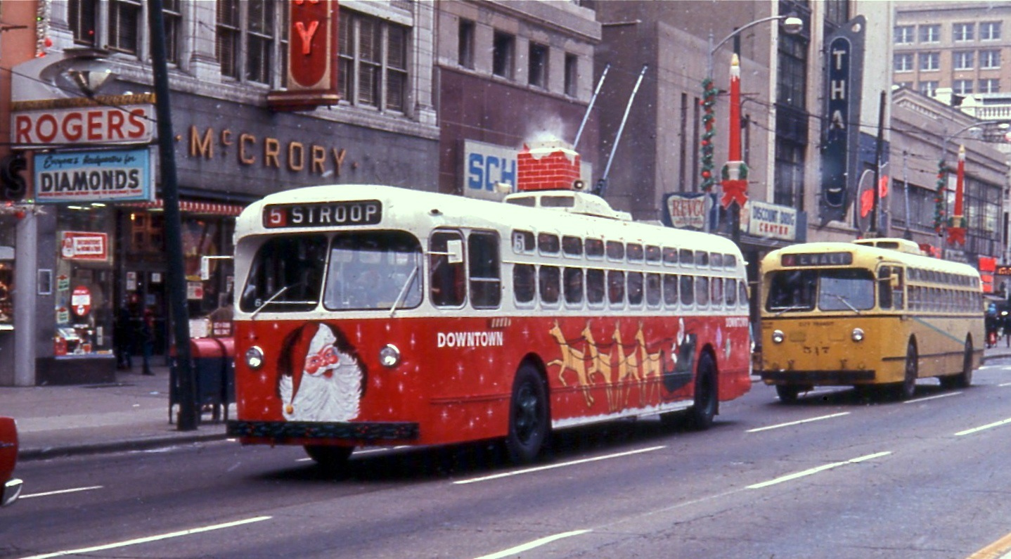 In Dayton, Ohio, for several years the City Transit Company and successor MVRTA had an annual tradition of decorating one of its trolley buses with Santa Claus themes for the Christmas season, and operating it in service in the month leading up to Christmas, with Santa on board greeting area children. From 1968 (the first year) through 1972, the specific vehicle used was No. 561, an ex-Columbus trolley bus (No. 607 in Columbus) built in 1948 by Marmon-Herrington. (Later, No. 559 was used as the Christmas trolley, and it had a different paint scheme.) Among the decorations were a fake fireplace inside and a fake chimney on the roof of the trolley bus. In this 1968 photo, the Christmas Trolley is southbound on Main Street between 3rd and 4th Streets, bound for Stroop, on route 5. Following it is trolley bus 517, wearing standard City Transit livery, on route 7 to Ewalt Circle.